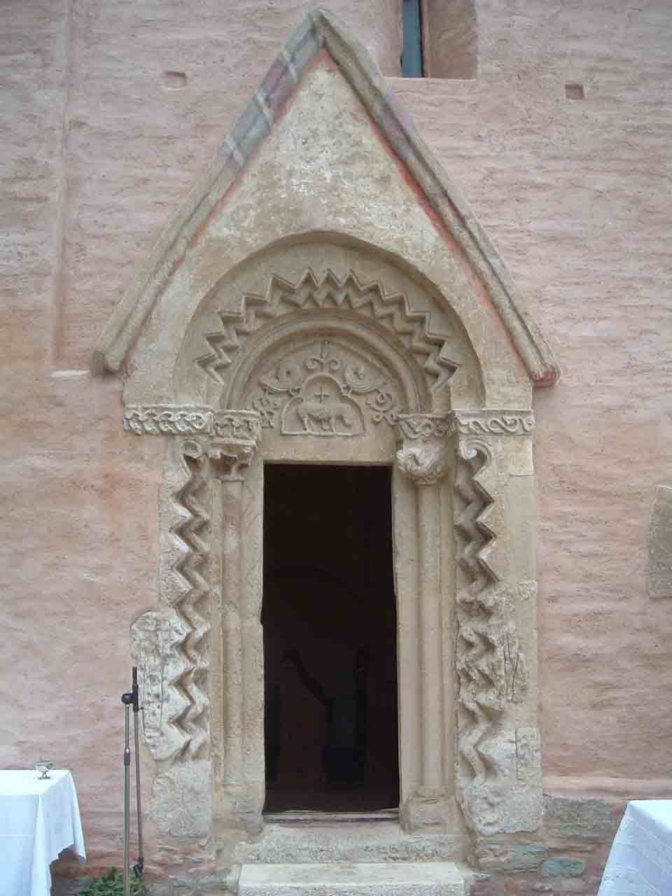 The entry of the church in Csempeszkopács (13th c.)